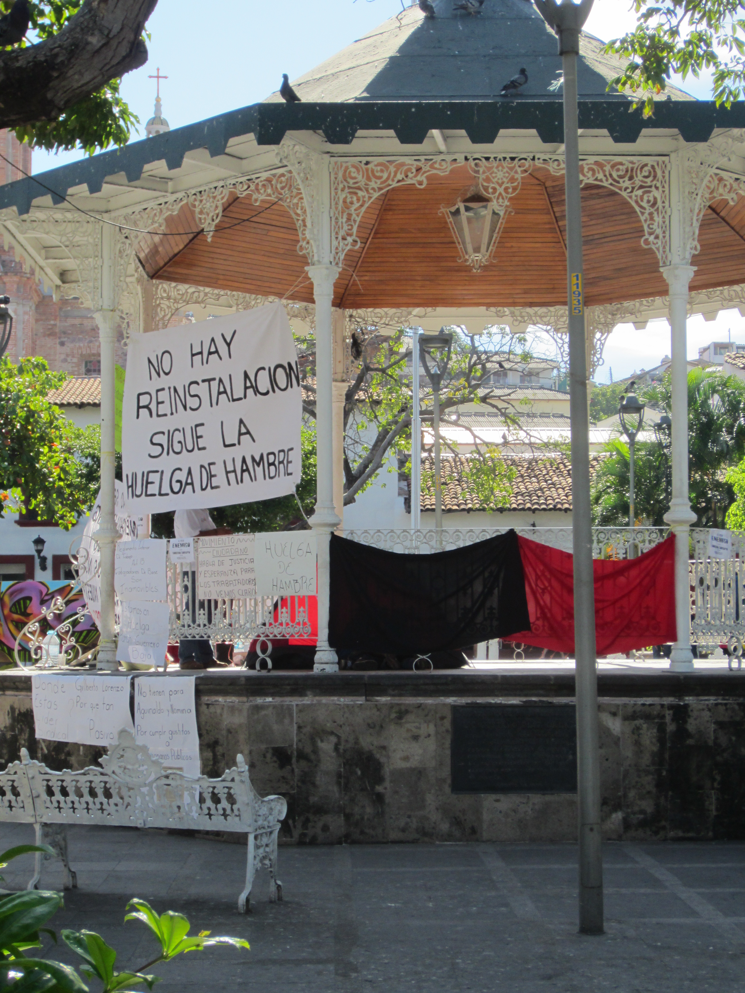 Plaza de Armas in Puerto Vallarta, Jalisco, Mexico (2014)